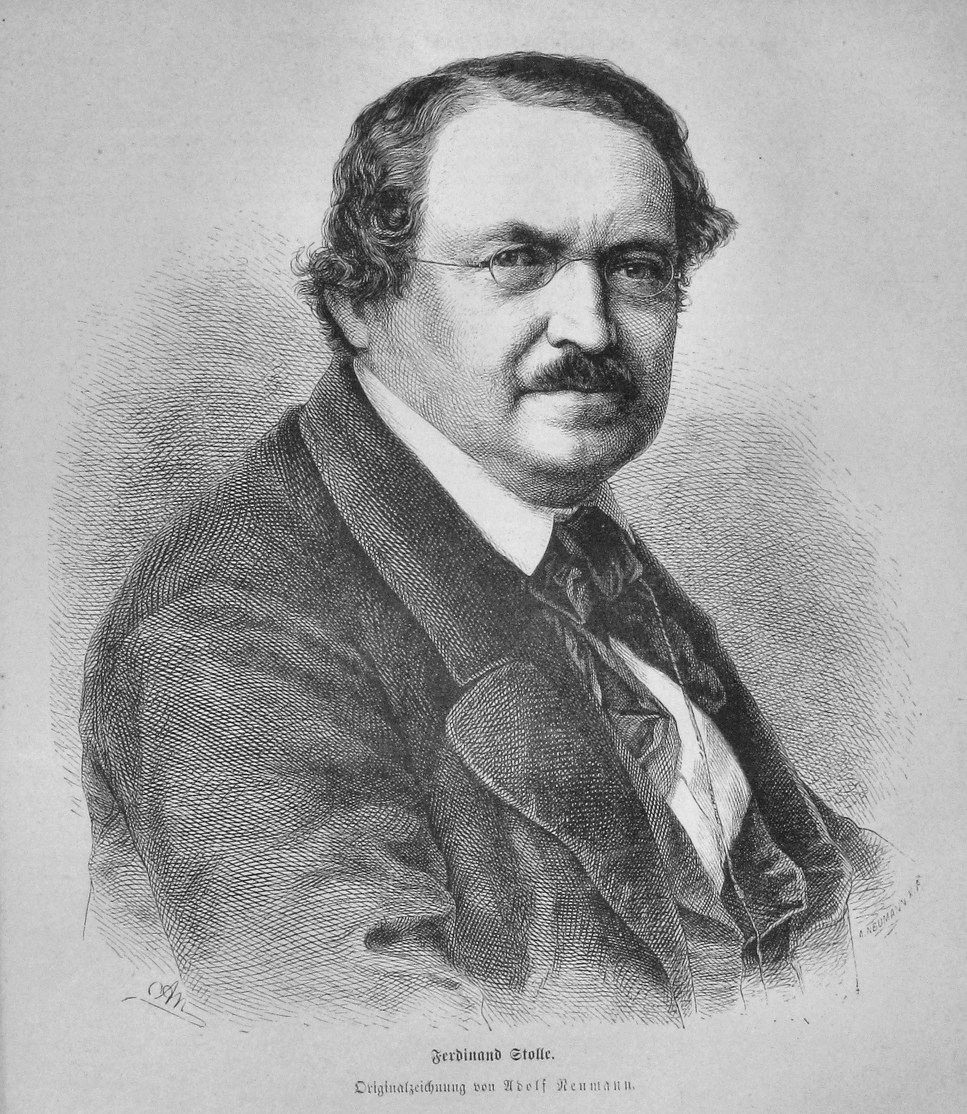 caption: "Ferdinand Stolle. Originalzeichnung von Adolf Neumann."